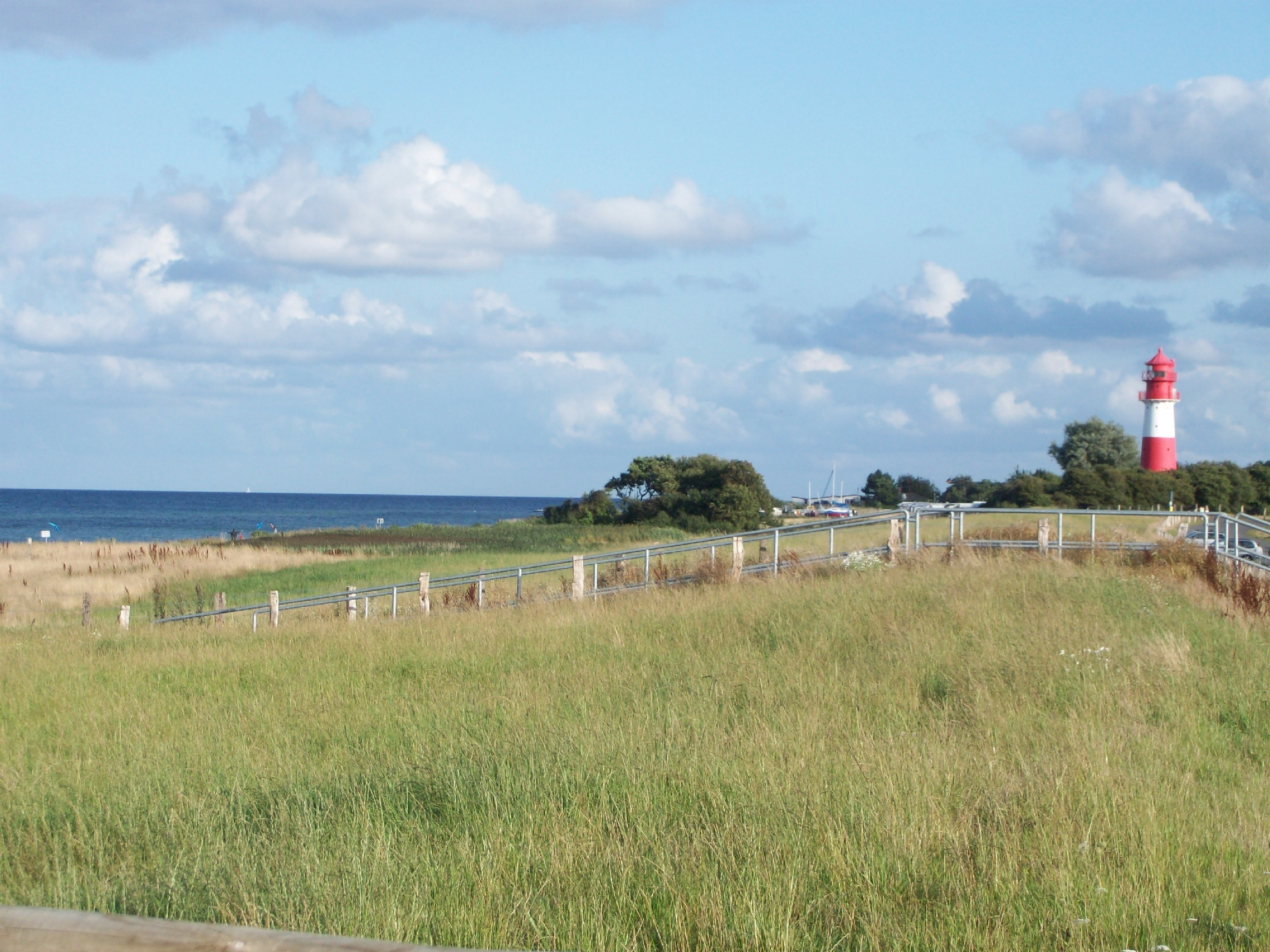 The wedding lighthouse south of the hamlet Falshöft at the Baltic Sea beach, territory of the village Pommerby, federal state Schleswig-Holstein, Germany